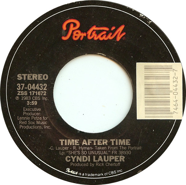 "Time After Time" by Cyndi Lauper; US vinyl release (A-side)